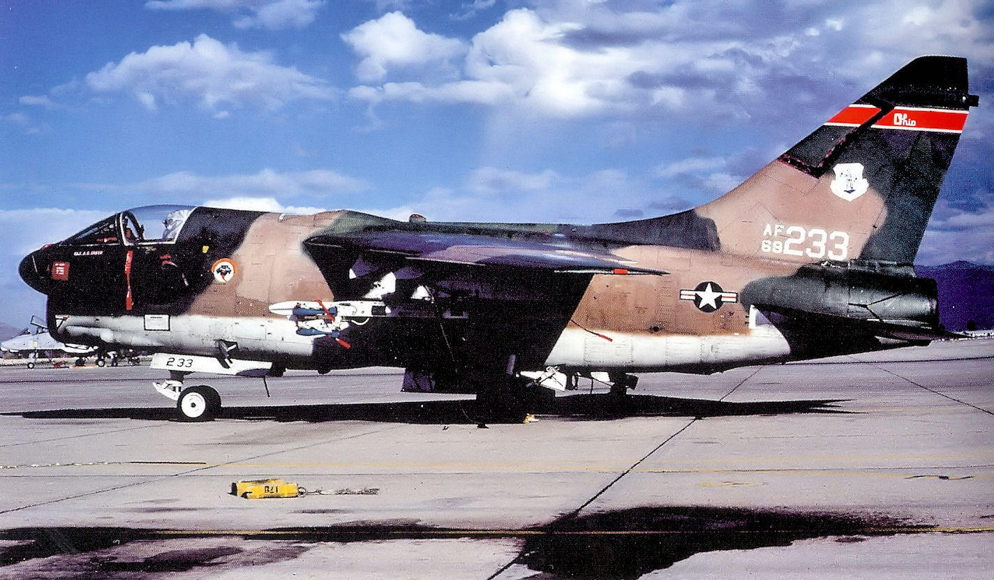 162d Tactical Fighter Squadron A-7D-5-CV Corsair II 69-6233 1971: Aircraft delivered to 354th Tactical Fighter Wing/355th TFS, Myrtle Beach AFB, SC (c/n D-063) Transferred to 162d Tactical Fighter Squadron, AOH Air National Guard, 1977 Transferred to AMARC as AE0049 Disposition:01-MAY-97 / To Fritz Enterprises, Taylor, MI. (Actually to HVF West yard, Tucson). Scrapped.